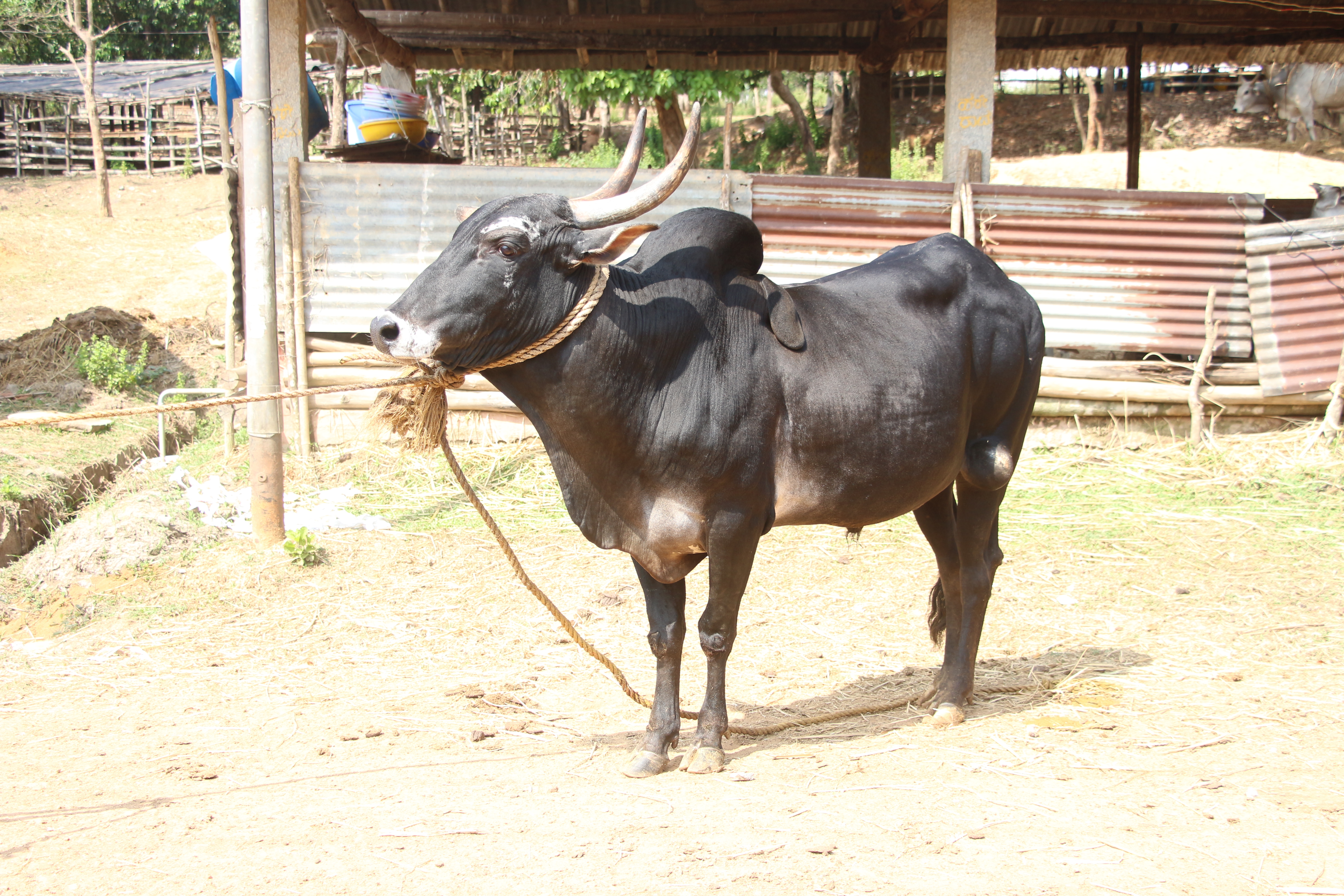 Indian cow breed Hallikaru ಕನ್ನಡ: ಭಾರತೀಯ ಗೋತಳಿ ಹಳ್ಳಿಕಾರು